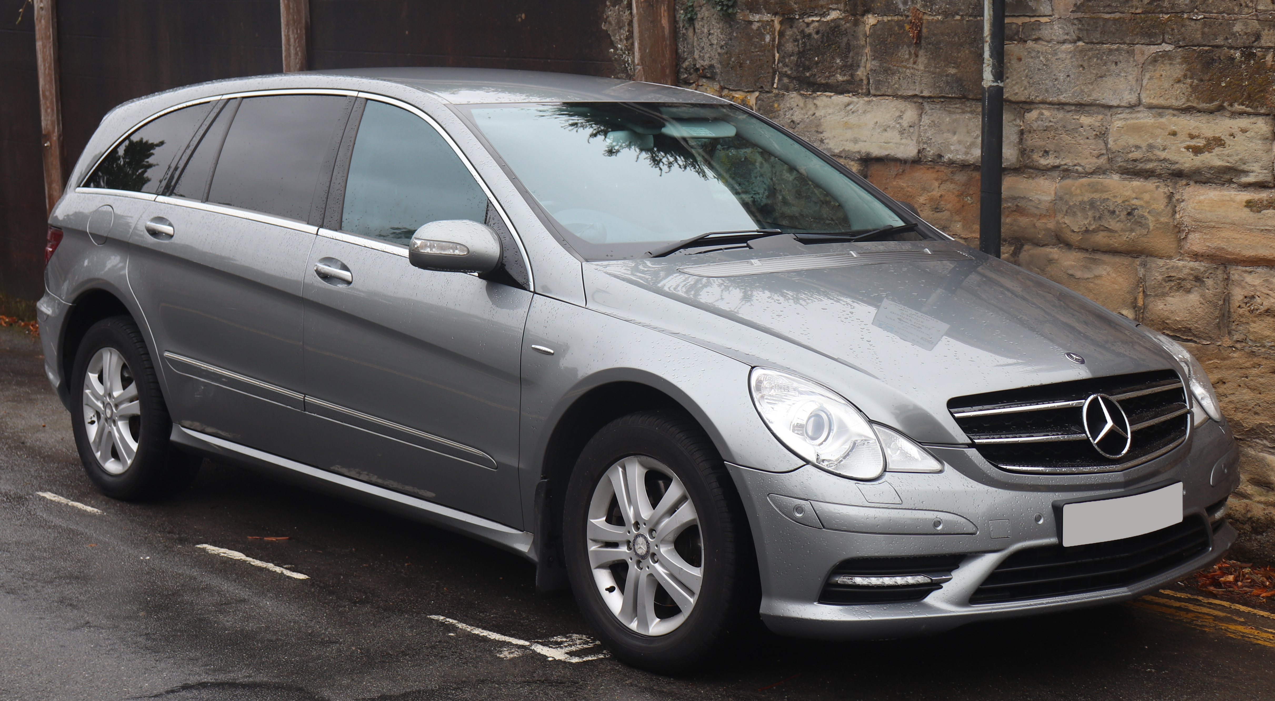 2010 Mercedes-Benz R350L Grand Edition CDi Automatic 3.0 Front Taken in Warwick